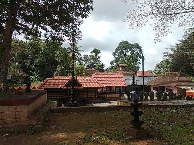 photos taken by jinesh device nokia x3